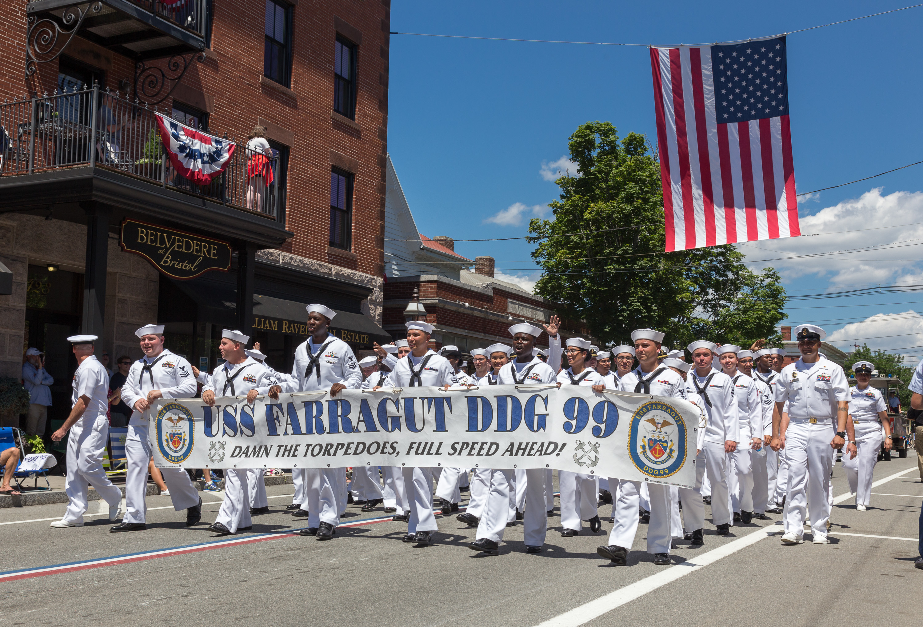 The crew of the USS Farragut DDG99 march in the 2017 Bristol Fourth of July parade